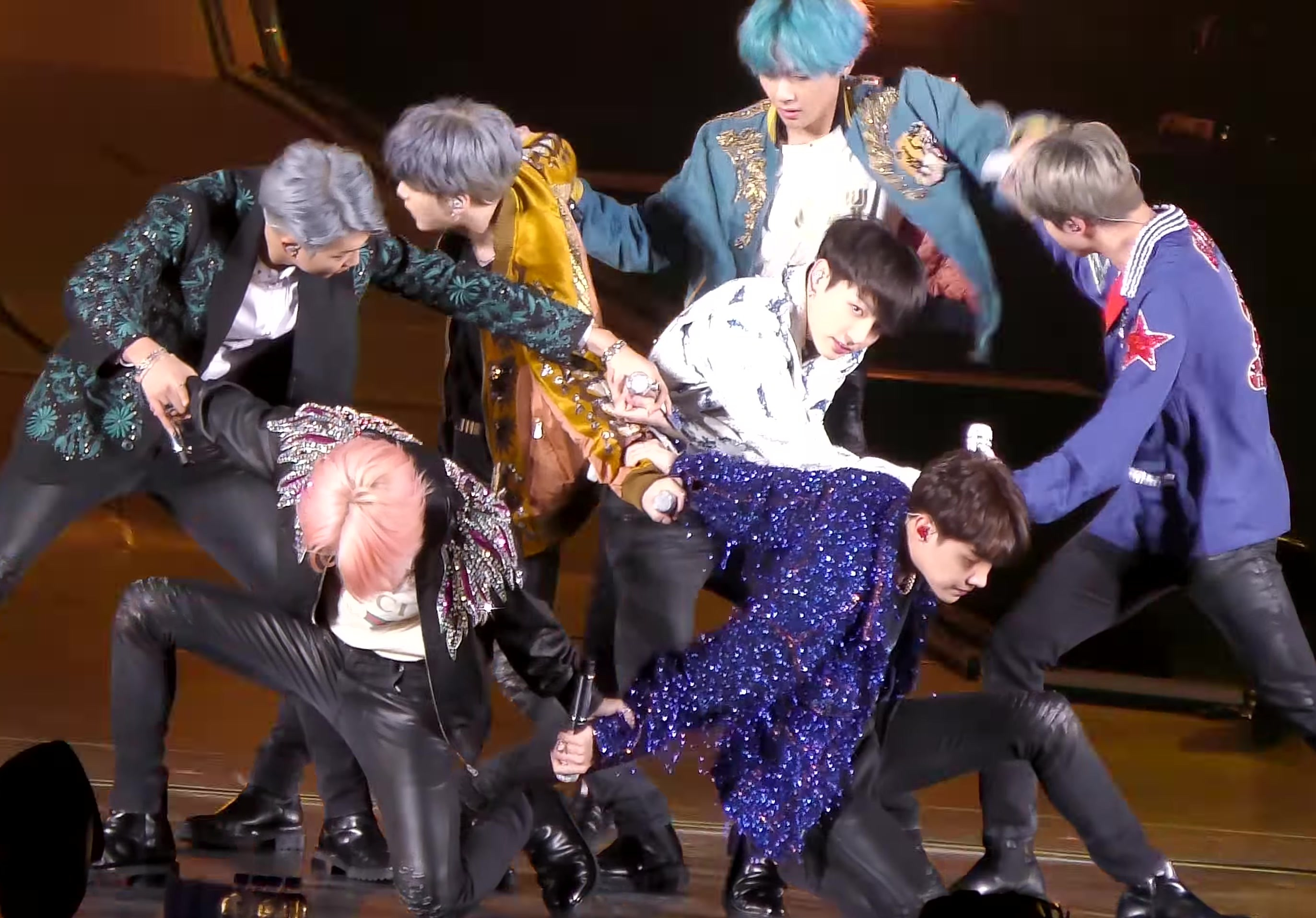 BTS performing "DNA" during the Love Yourself concert in Nagoya, 13 January 2019